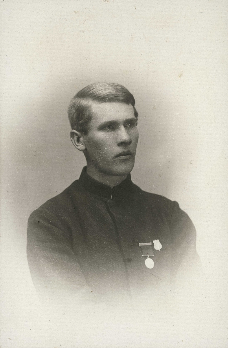 Lauritz Bergendahl (1887–1964), Norwegian Nordic skier. Photo in collection of Oslo Museum via DigitaltMuseum.